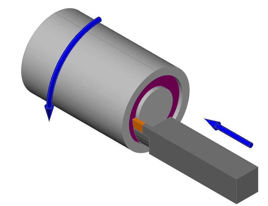 Turning a groove into the end of a round workpiece